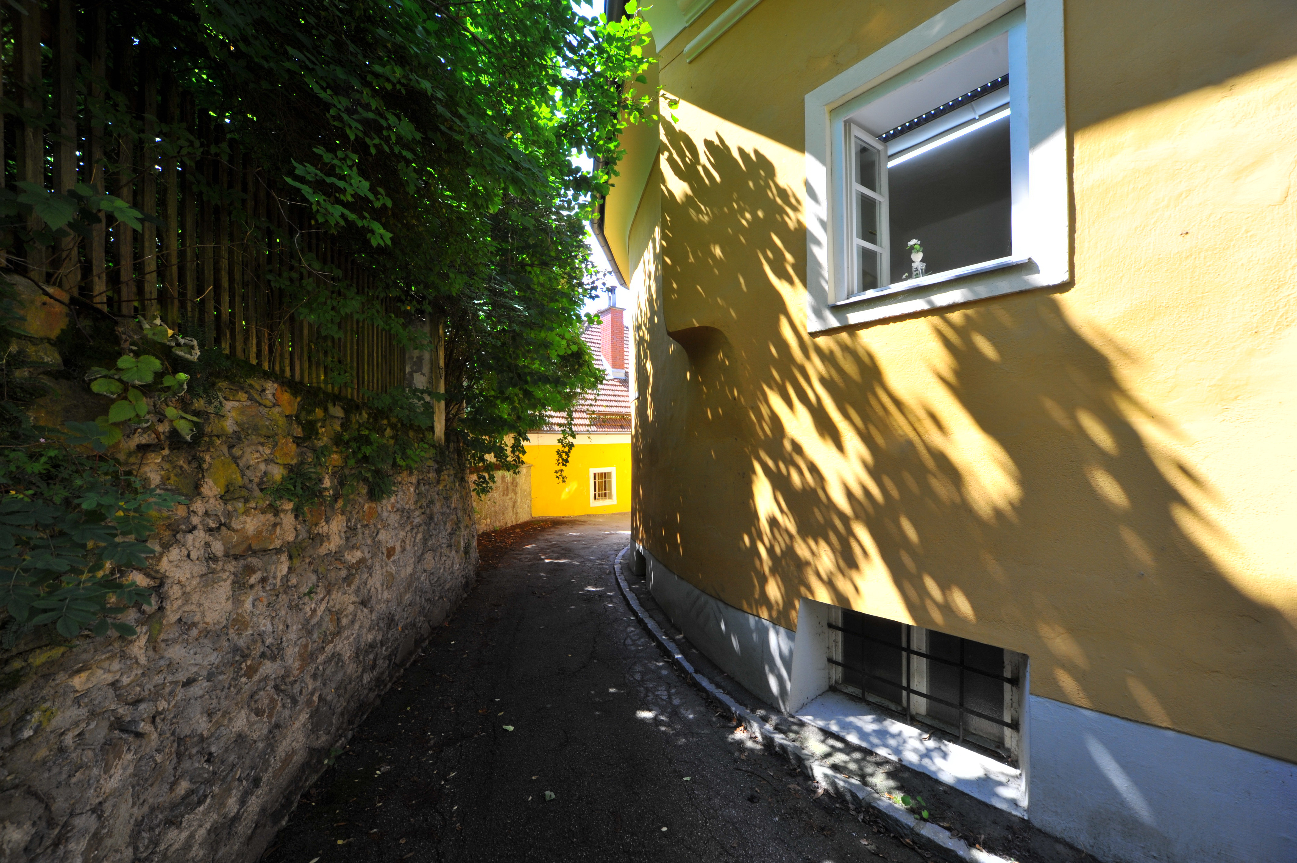 Schnerichweg in Maria Saal, municipality Maria Saal, district Klagenfurt-Land, Carinthia, Austria